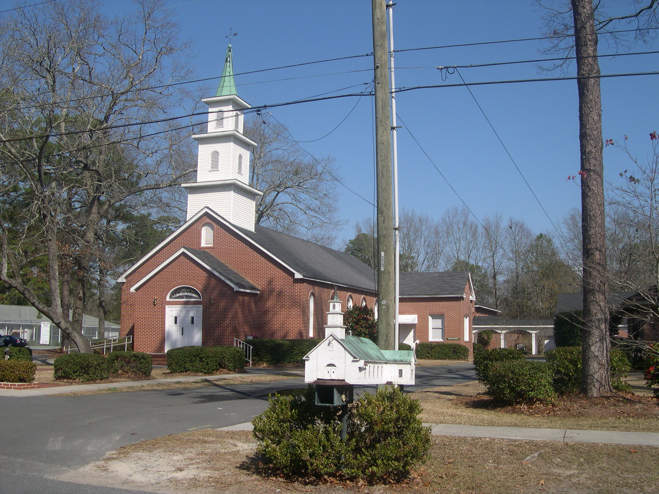 Garden City United Methodist Church, located at 62 Varnedoe Avenue, Garden City, Georgia.